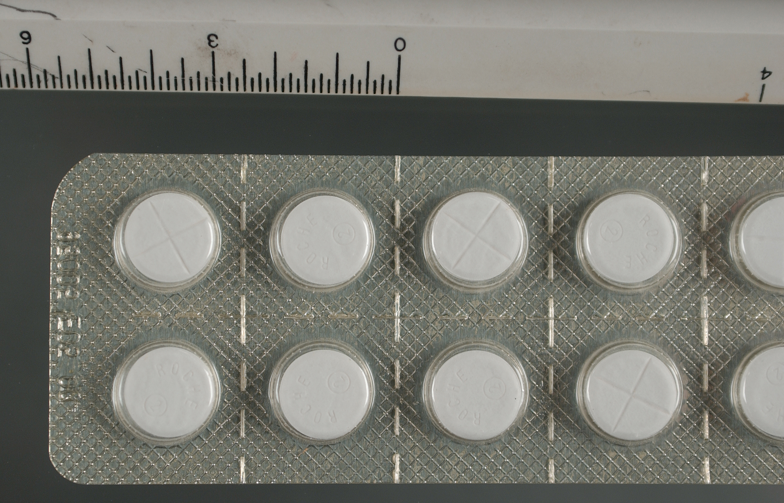 Rohypnol (Flunitrazepam) blister pack, 2 mg tablets; cropped from original